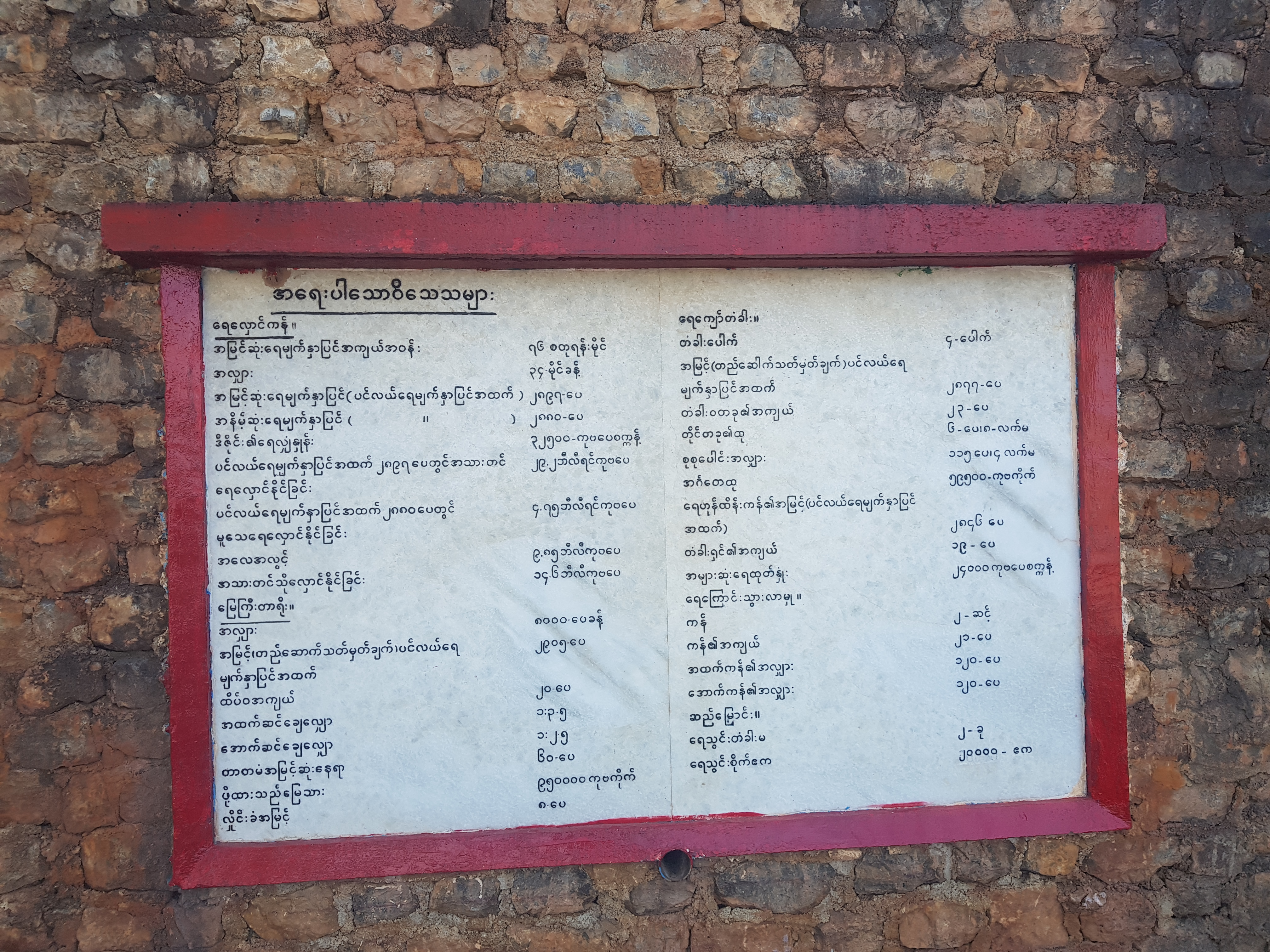 The details